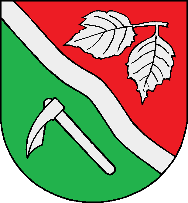 Coat of arms of the municipality Groß Schenkenberg in Schleswig-Holstein, Germany.